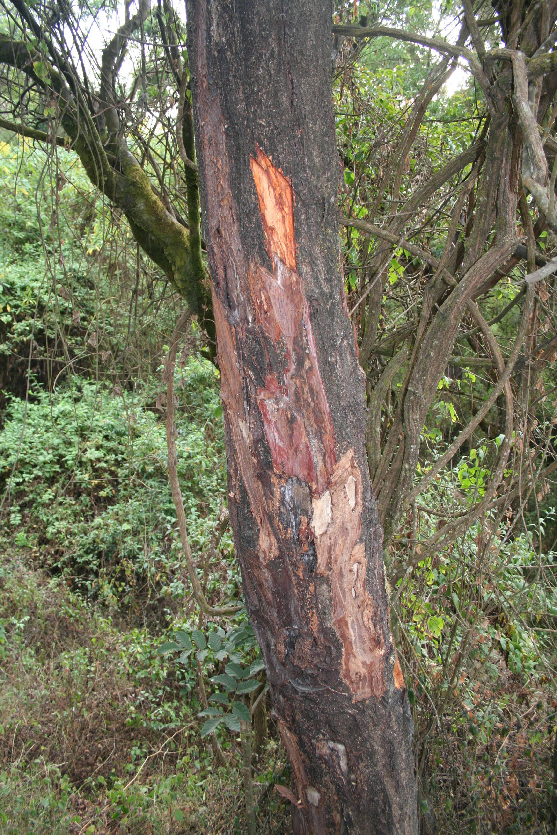 Prunus africana, bark harvested for medicine, Mt. Cameroon